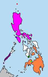 Distribution of the shrew genus Crocidura in the Philippines. Red: C. attenuata; Pink: C. grayi; Blue: C. mindorus; Purple: C. palawanensis; Dark green: C. negrina; Light green: C. grandis; Orange: C. beatus.